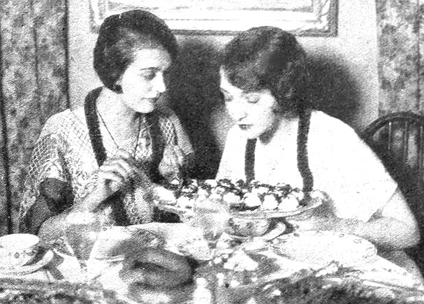 Photo of Lila Lee and Bebe Daniels having lunch at Cafe Montmartre.